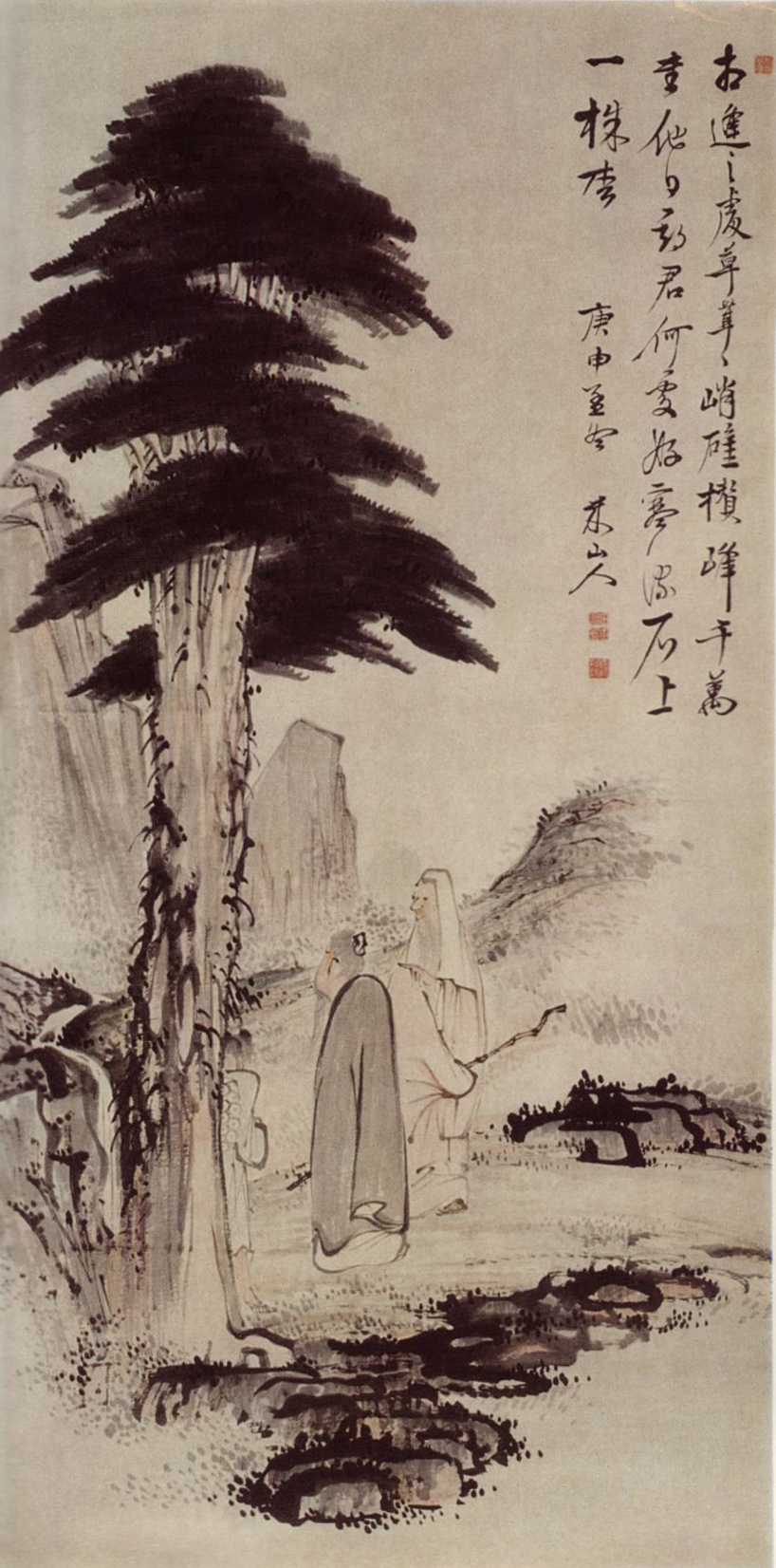 Scholars under a Pine Tree by Okada beisanjin Age of 57,hanging scroll 松下高士図 57歳の作 紙本着色